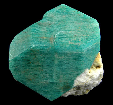 Microcline (Var.: Amazonite) Locality: Konso, Sidamo-Borana Province, Ethiopia (Locality at ) Size: 4.6 x 4.5 x 4.3 cm. This specimen is from the new finds of Amazonite in Ethiopia. It features a beautiful, rich blue-green color, very well formed Carlsbad-twinned crystal on minor white Albite (var: "Cleavelandite"). These are easily some of the finest quality Amazonite specimens to reach the market in recent years. Aside from the specimens that occur at the Pike's Peak Batholith in Colorado, these are some of the most impressive Amazonite specimens around. This specimen even has good luster and is not at all pitted like many crystals from this area. A fine quality miniature with superb color.